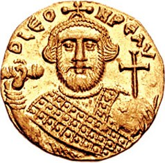 Solidus of Leontius.